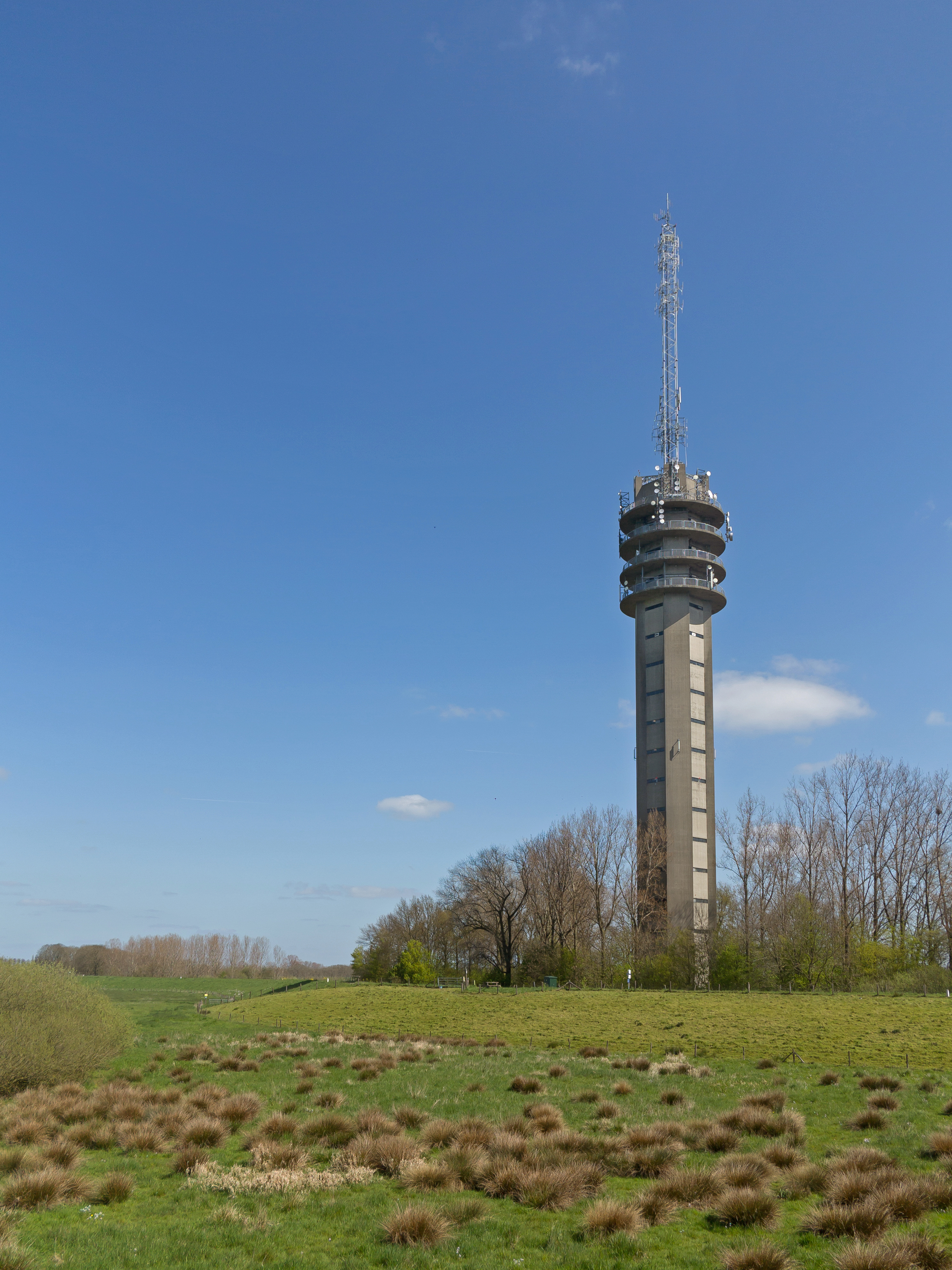 Between Haren and Dieden, tower (de Alticom-toren)